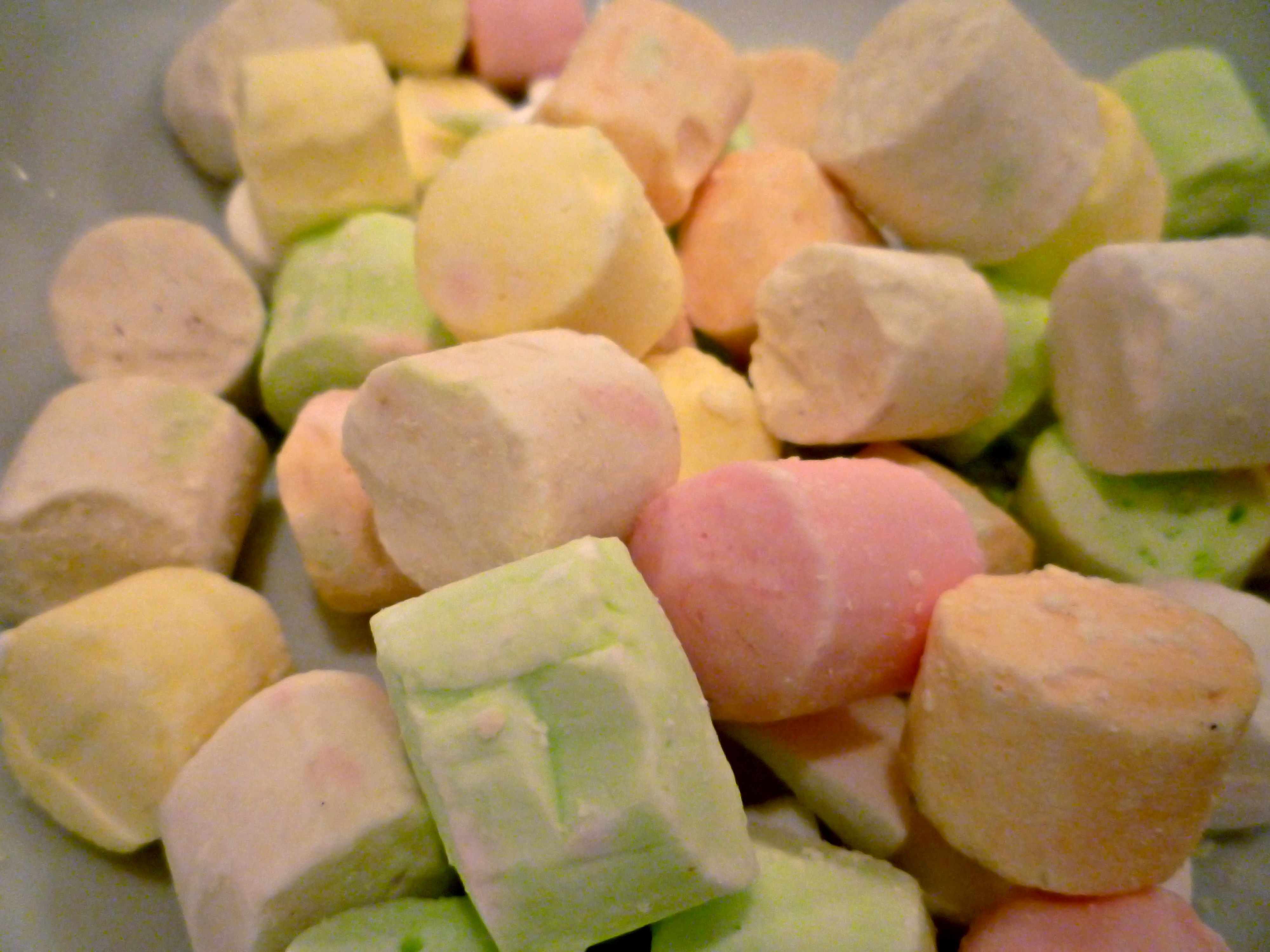 Edinburgh rock, a hard, brittle form of Scottish confectionery